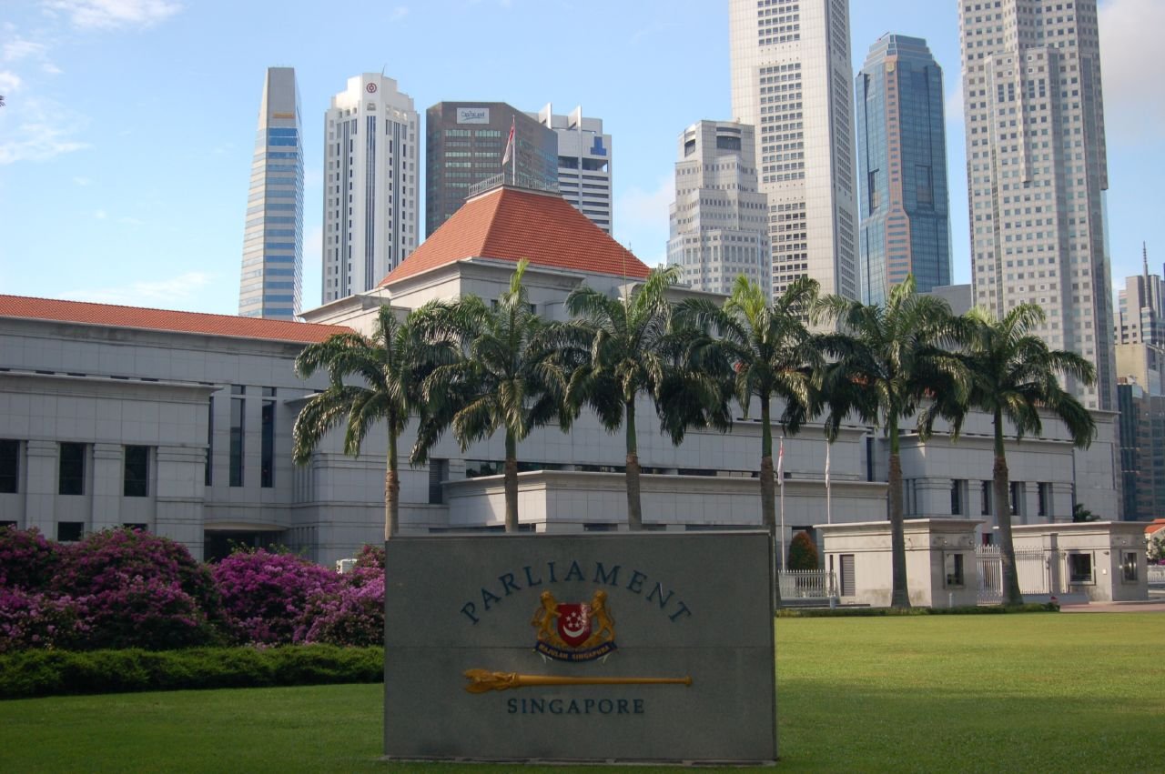 Parliament House, Singapore, with the skyscrapers of the Central Business District in the background.